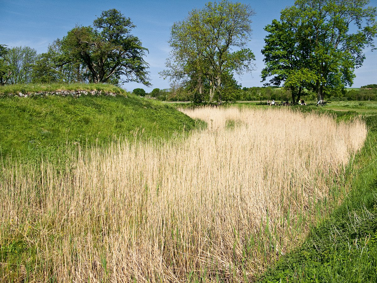 The moat surrounding Søborg Castle (Danish: Søborg Slot), which in its heyday, was the strongest castle in Denmark ,and was also used as a prison (Jens Grand was imprisoned here in the 13th century). It was inhabited until the Count's Feud in 1535 (Søborg_Castle